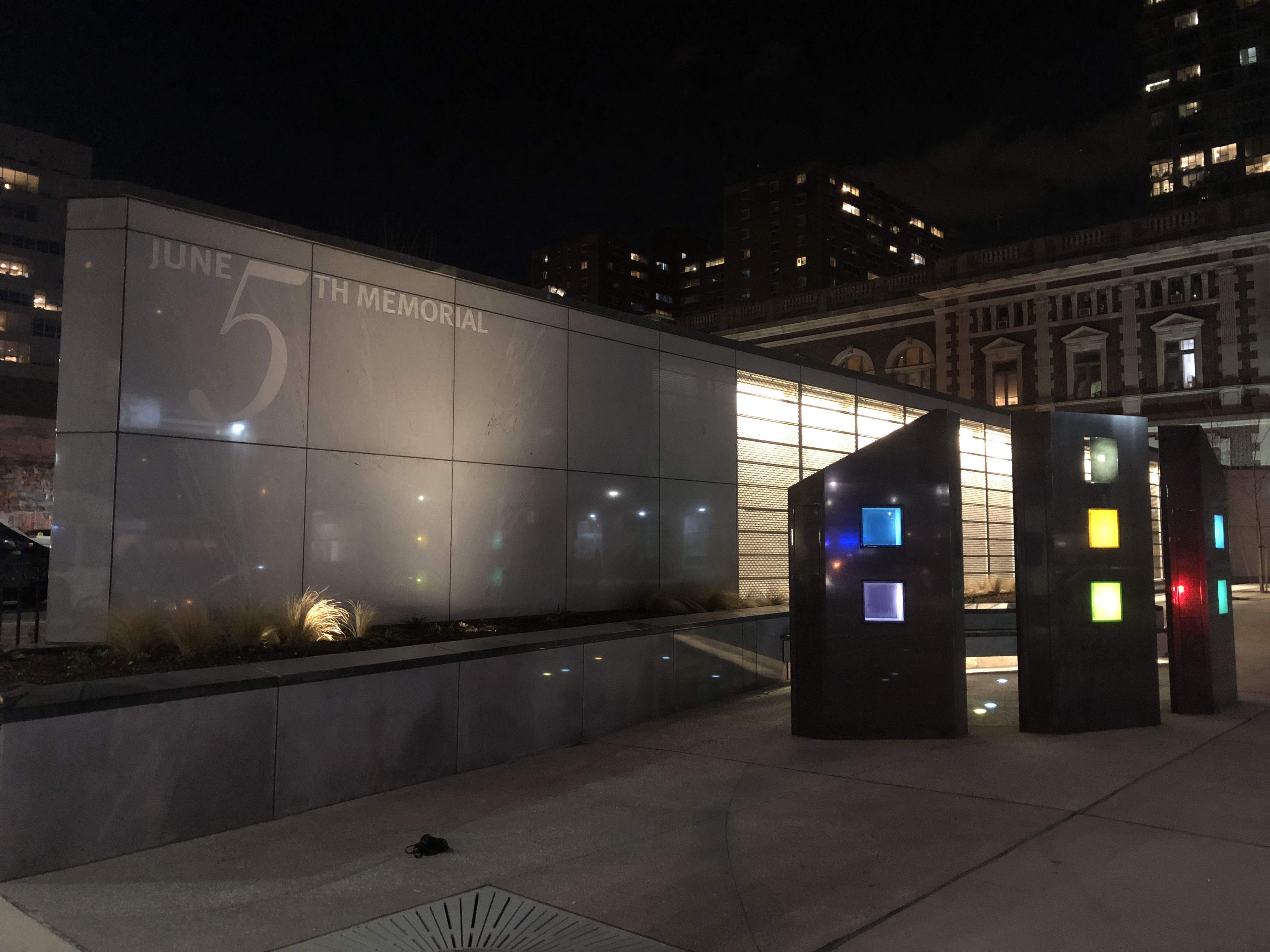 The memorial to the June 5th, 2013 building collapse at 22nd and Market streets in Philadelphia.